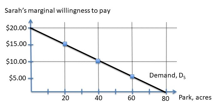 This is a graph of the first individual's willingness to pay for a public good.